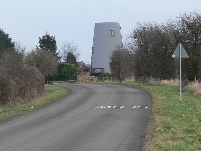 House converted from an early 19th-century tower mill at Gilmorton, Leicestershire.